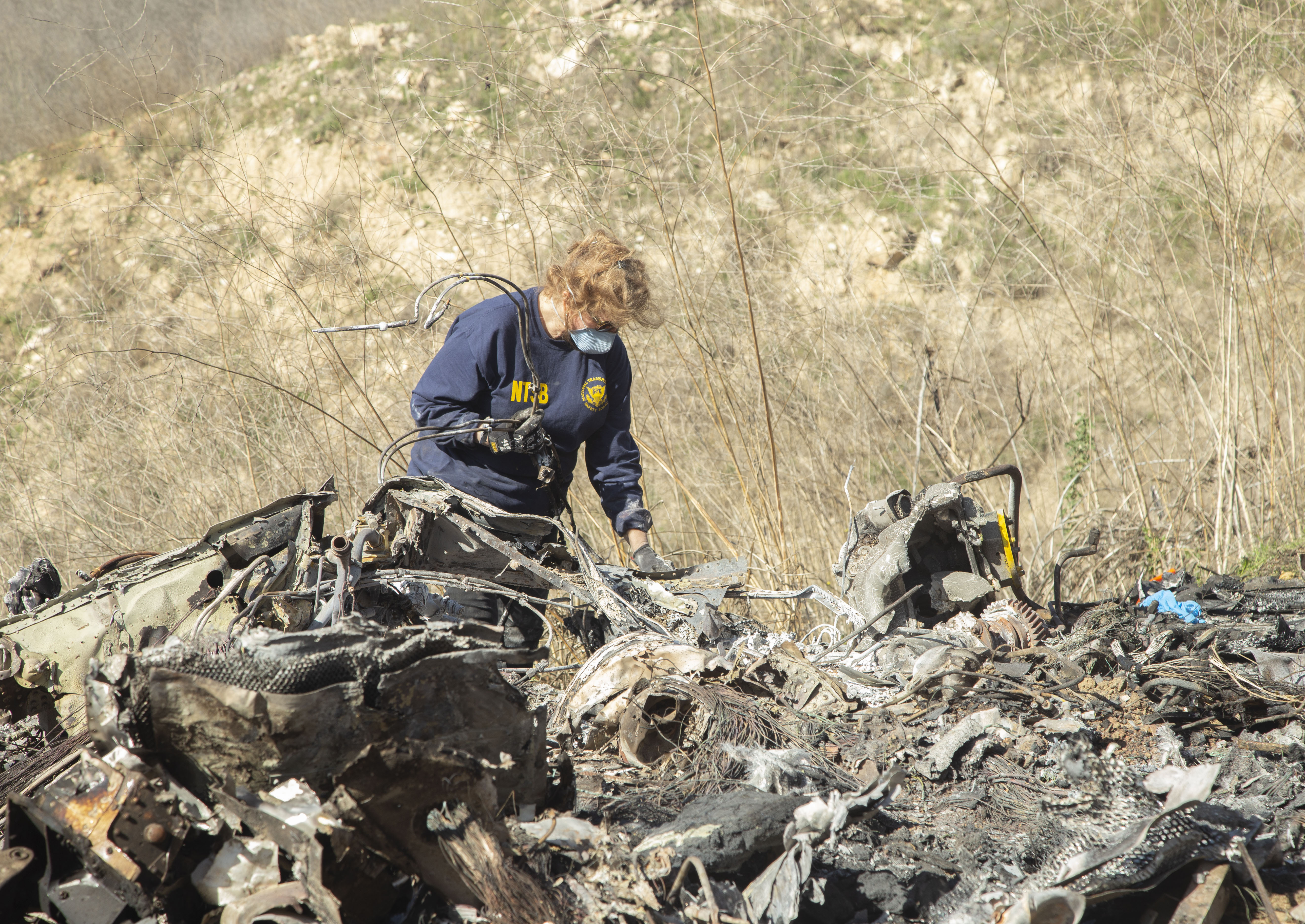 CALABASAS, California (Jan. 28, 2020) — In this photo taken Jan. 27, NTSB investigator Carol Hogan examines wreckage as part of the NTSB’s investigation of the crash of a Sikorsky S76B helicopter near Calabasas, California, Jan. 26. The eight passengers and pilot aboard the helicopter were fatally injured and the helicopter was destroyed. (NTSB photo by James Anderson)